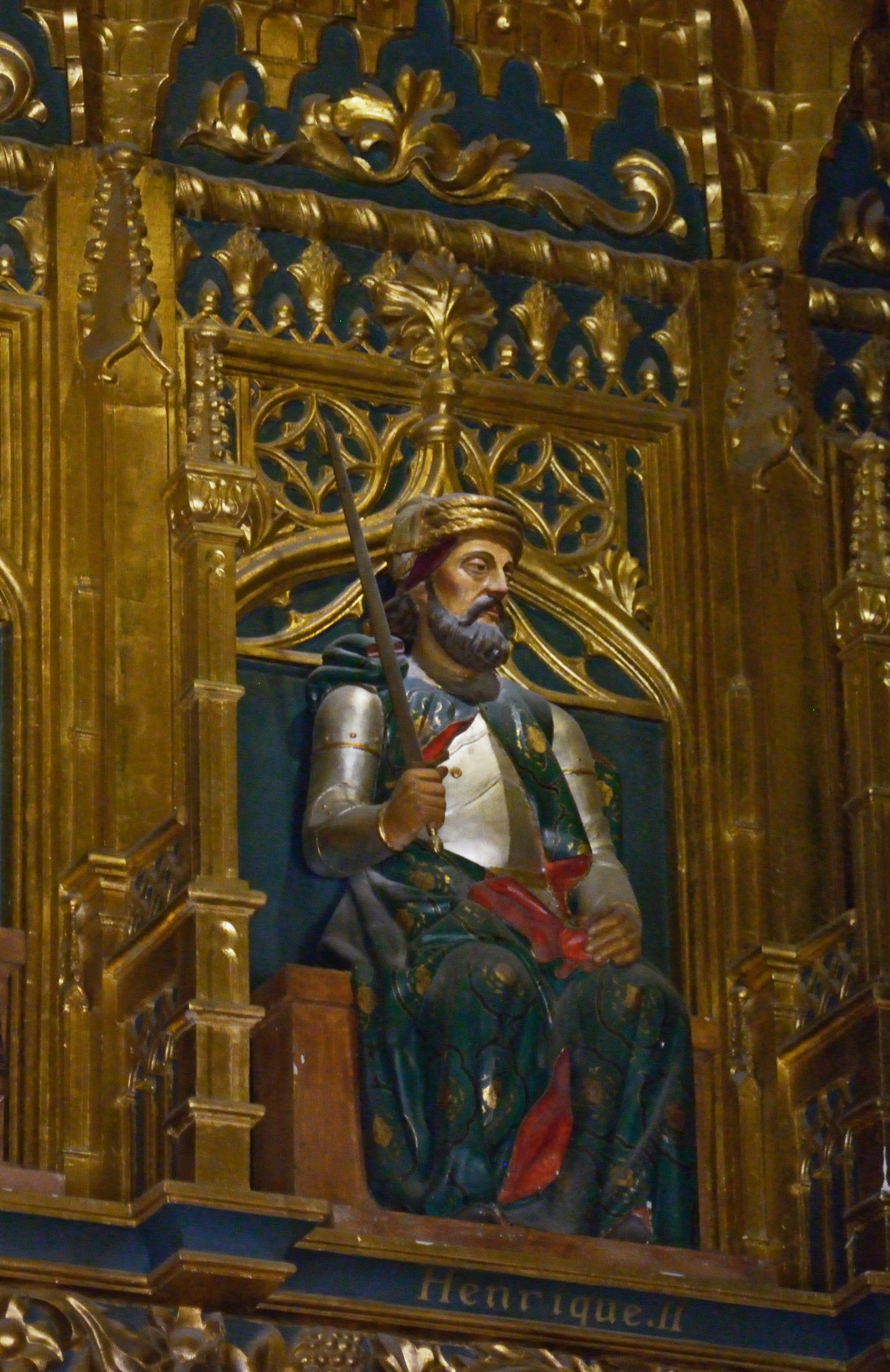 Image of the King Henry II of Castile (Enrique II de Castilla) on the Royal Hall frieze in the Alcázar of Segovia